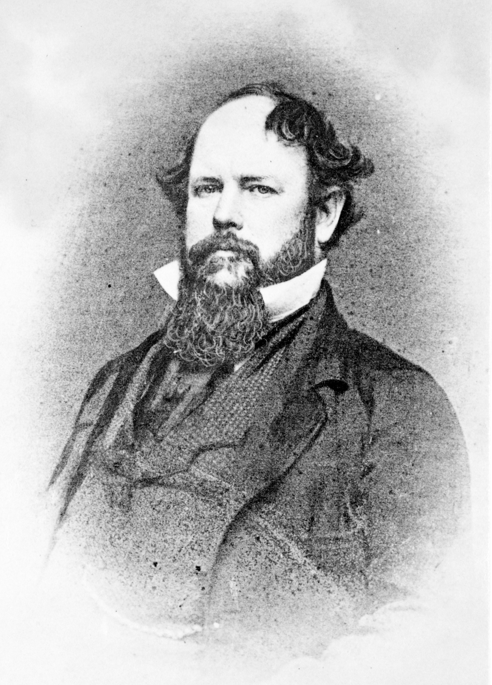 Nathaniel Beverley Tucker. Photographic copy of an earlier portrait.